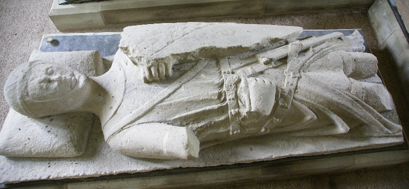 Effigy at Inchmahome Priory, Scotland